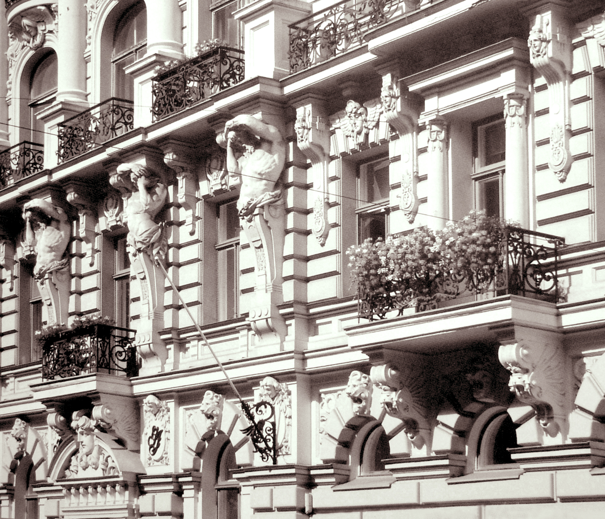 Latvia, Riga, Antonijas street crossing Elizabetes street. Elizabetes 33.